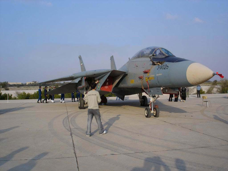 An Iranian Grumman F-14A Tomcat exhibited in Busheher, Iran, in 2006.